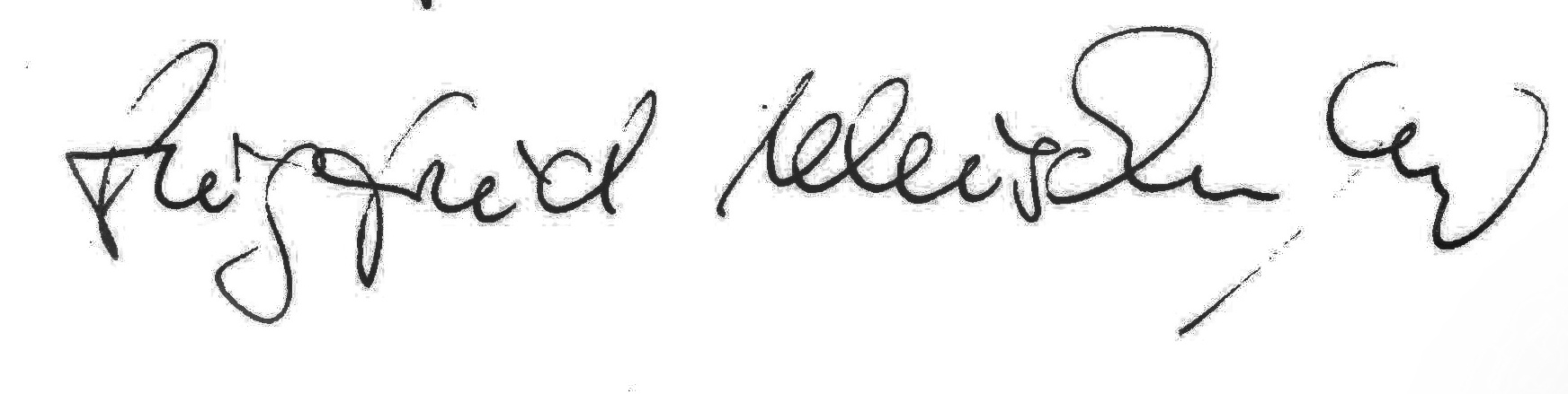 Signature of Siegfried Weischenberg, German Communication Theorist